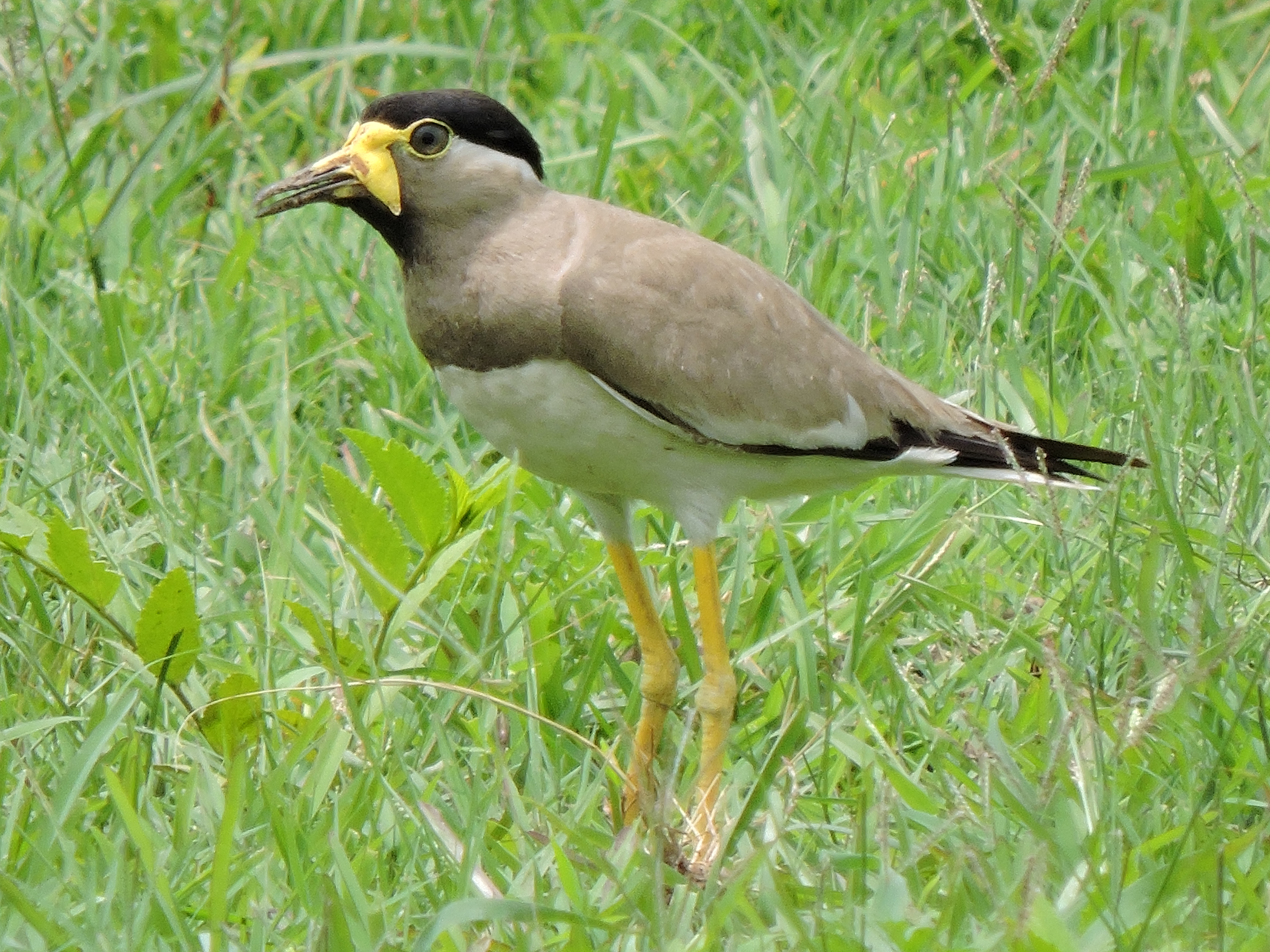 Yellow-wattled lapwing, Kalka, Haryana, India